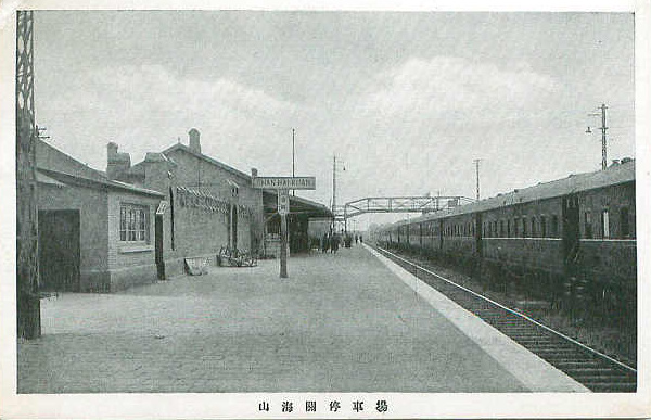 Old Shanhaiguan Railway Station